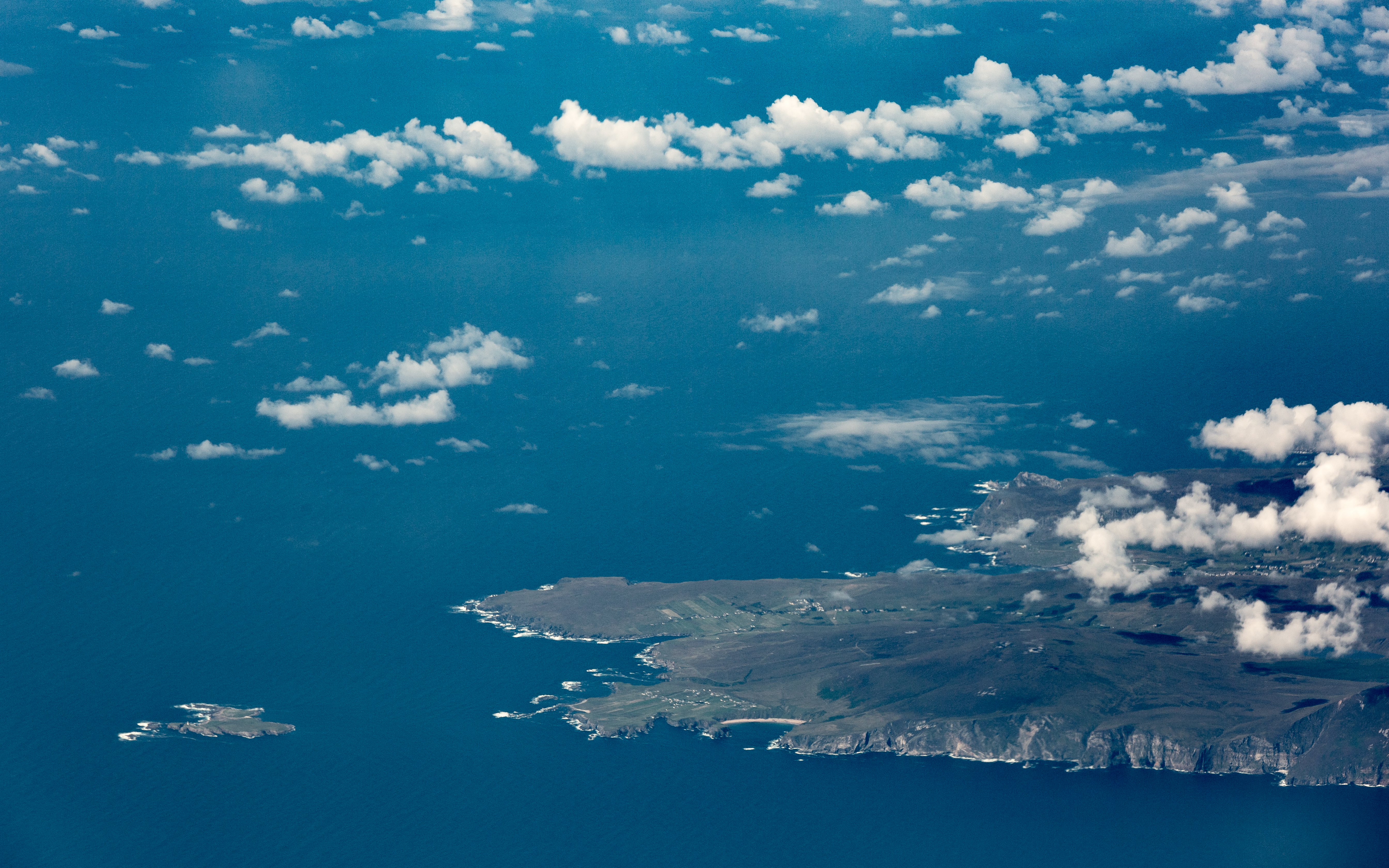 The coast near Malin Beg, Ireland